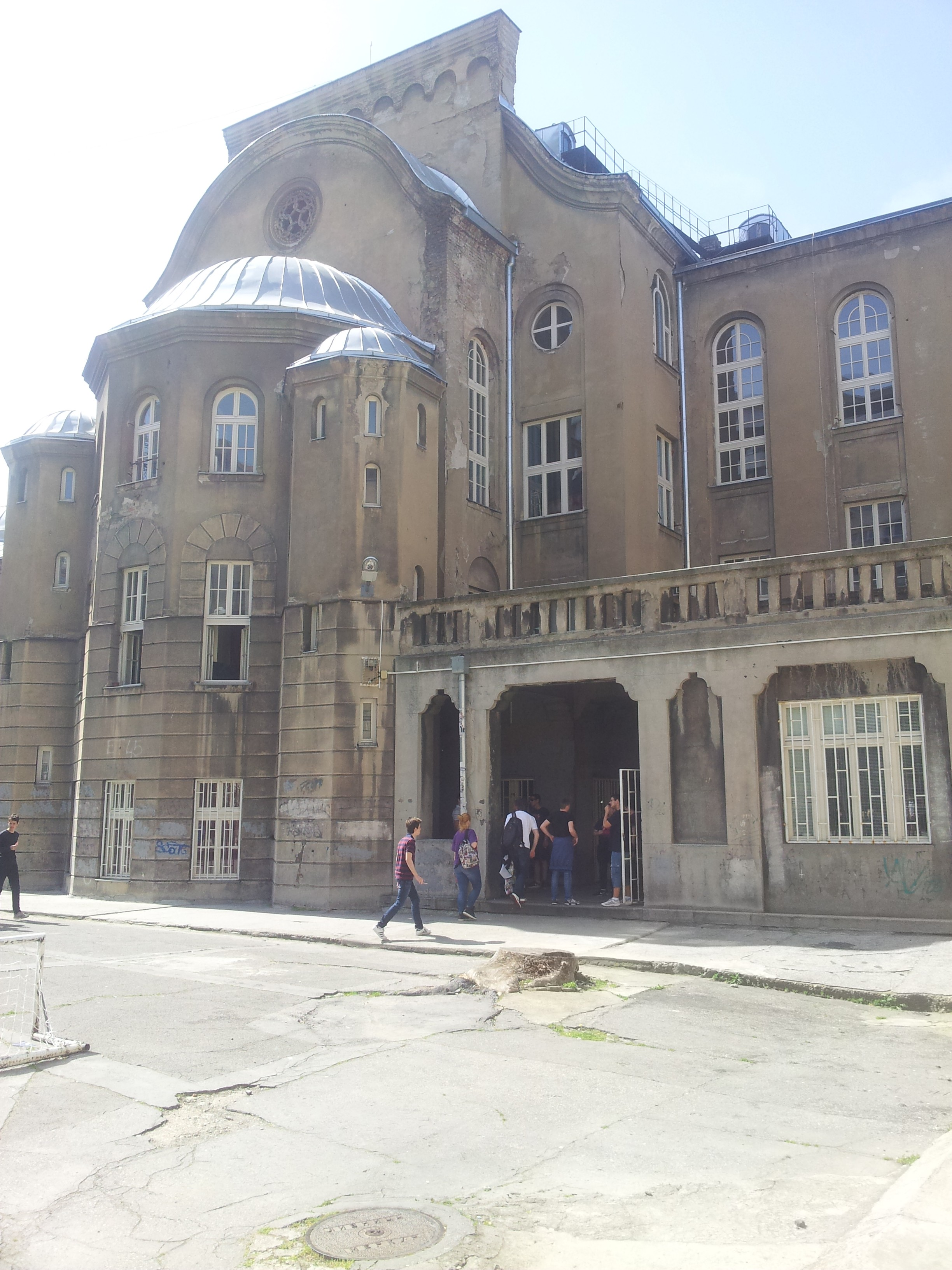 Nikola Tesla Highschool in Belgrade